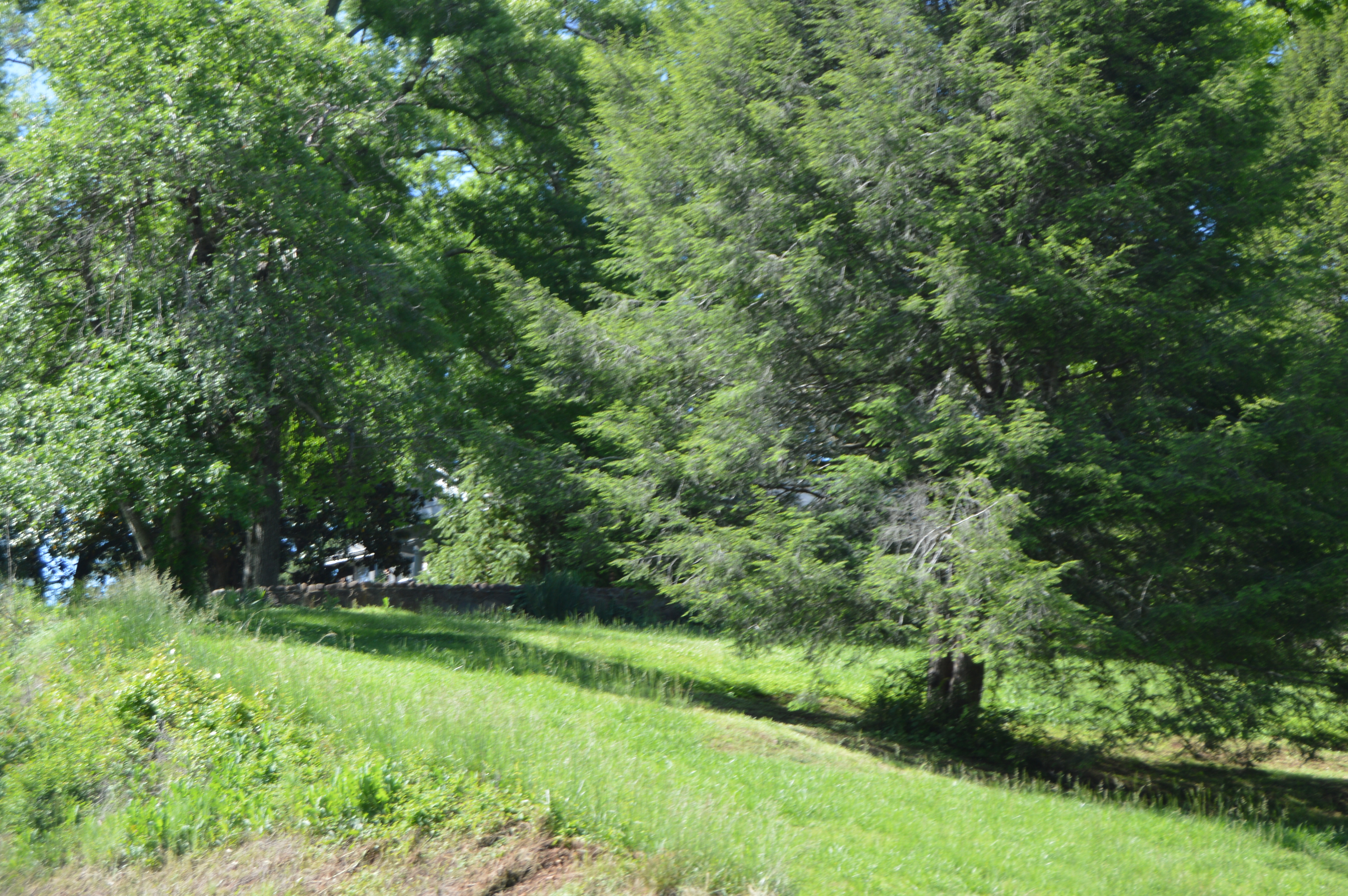 Lawn and trees at the R.L. Stone House, located on State Route 57 in Bassett, Virginia, United States. The house is listed on the National Register of Historic Places.